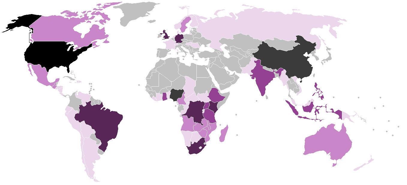 This map shows countries with more than 1.000.000 Protestants in 2010. Data taken from Pewforum Christianity Report. Legend: More than 150 million More than 50 million More than 20 million More than 10 million More than 5 million More than 1 million